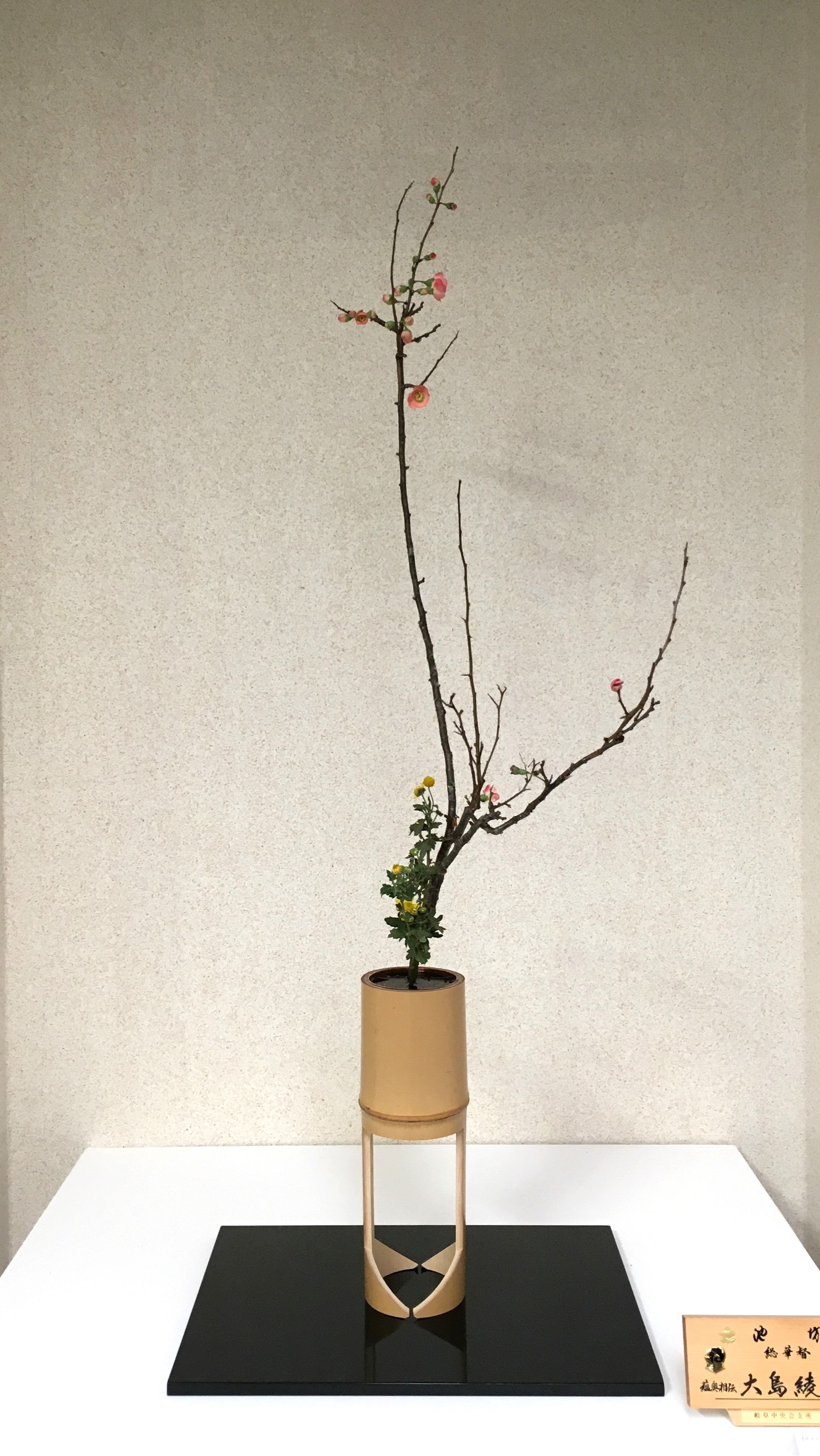 Arrangement from the Sōka Hyakki at the 2017 Ikenobō Autumn Tanabata Exhibition at Takashimaya Kyoto, Japan.